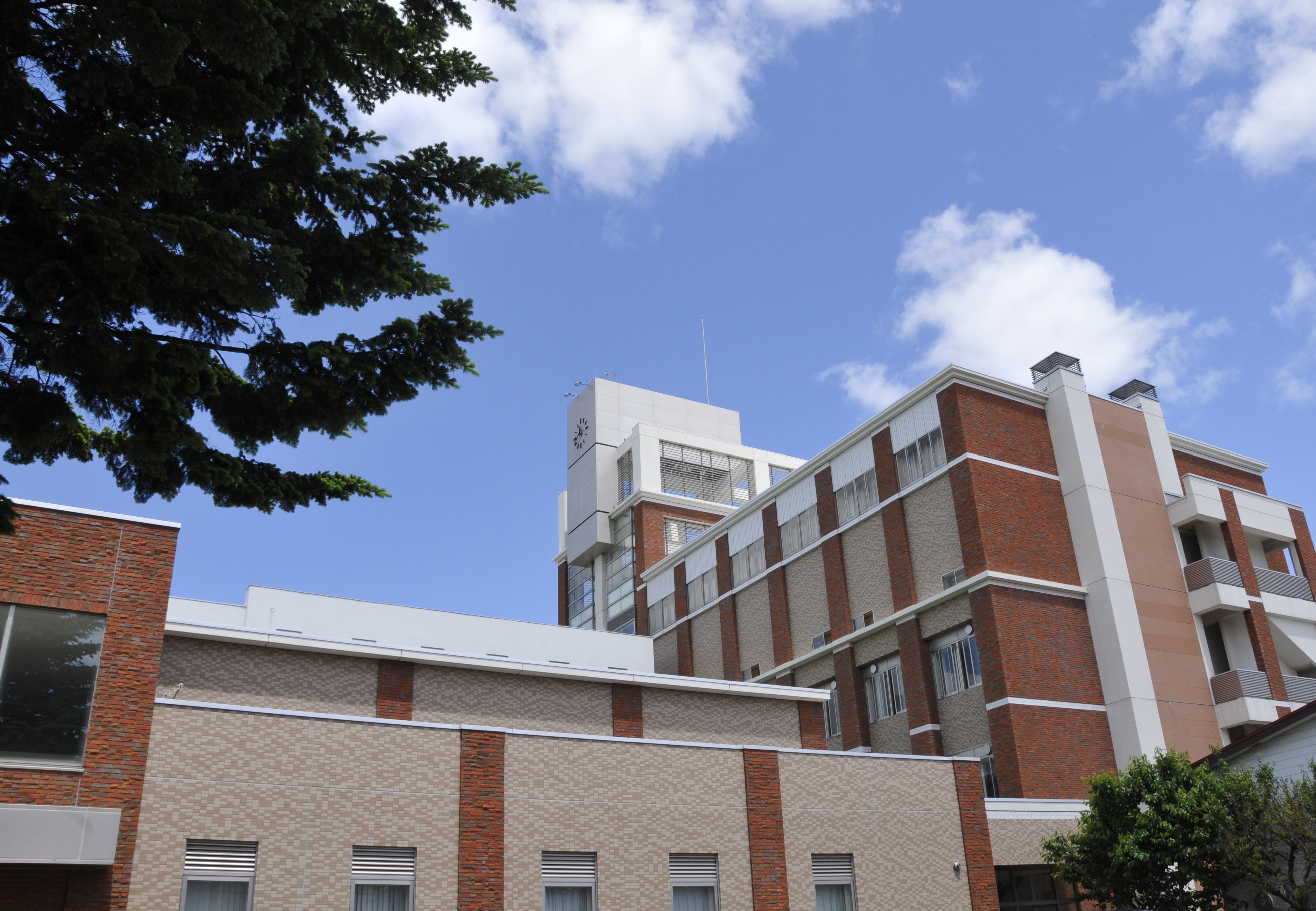 Sapporo Otani Univercity Buildings, Sapporo, Japan.